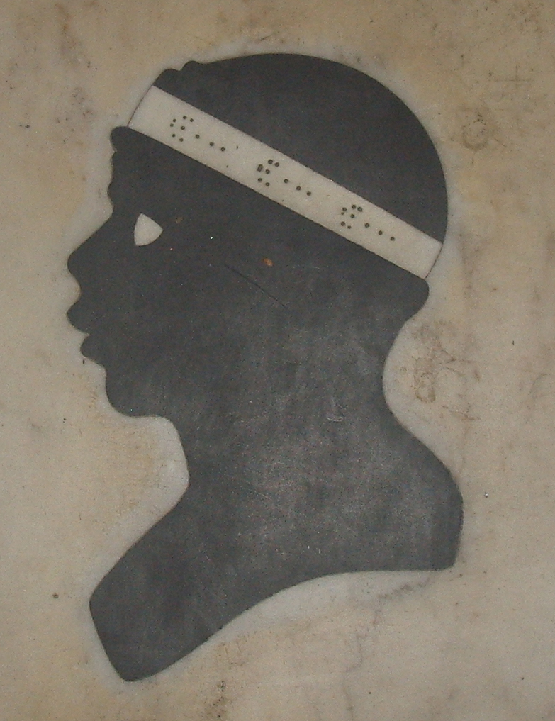 Santissima Annunziata, Florence: Coat of arms of the Pucci family in the floor